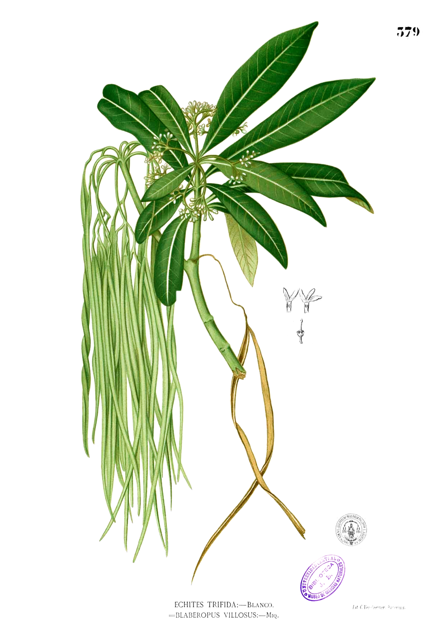 Plate from book